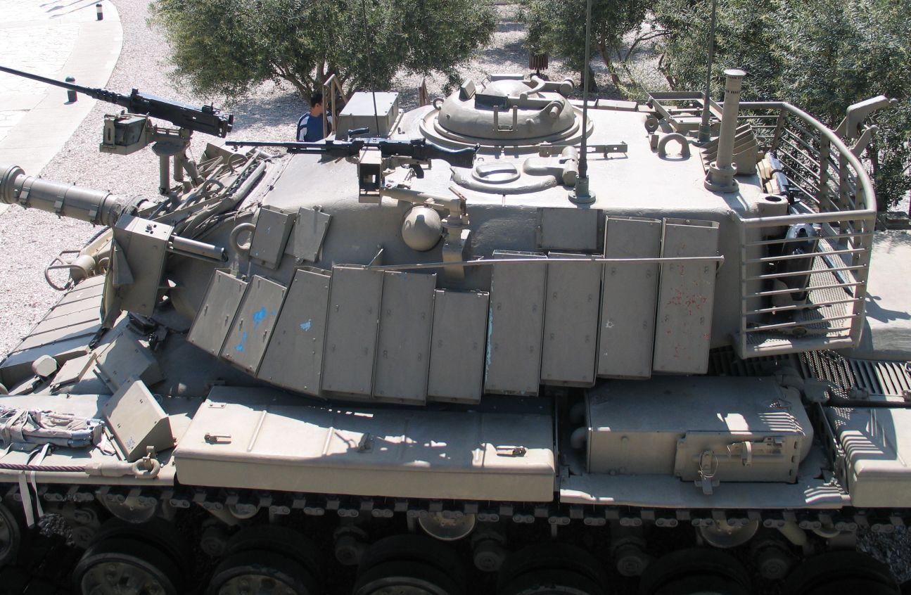 Magach 6 - an Israeli upgraded M60A1 Patton with Blazer ERA in Yad la-Shiryon Museum, Israel.